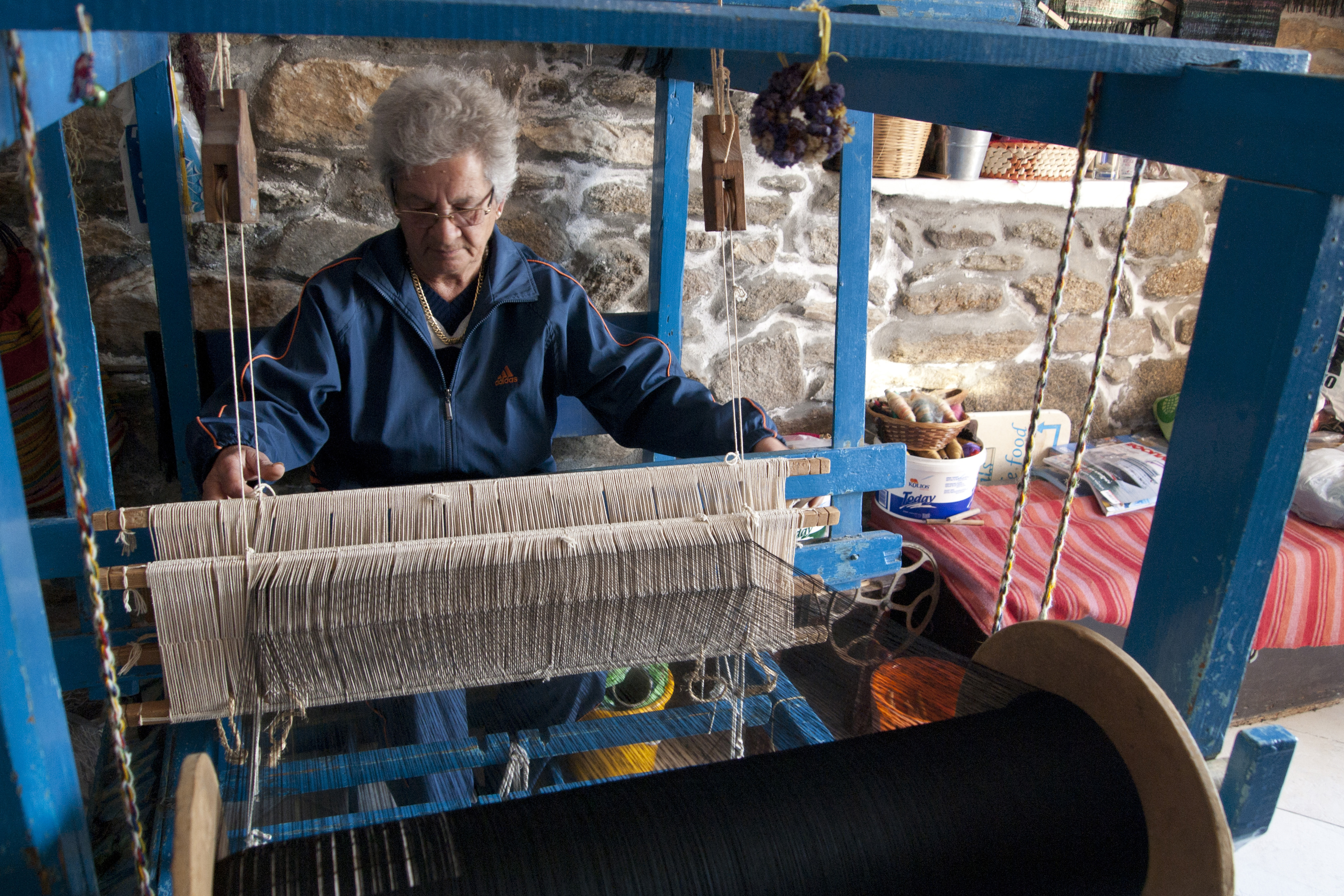 Mykonos, Greece